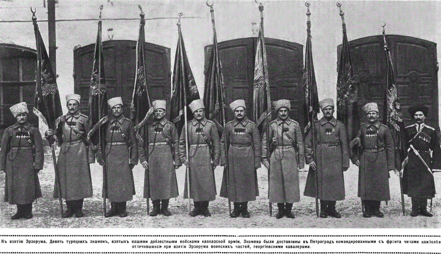 Russian soldiers (Don Cossacks) with the nine Ottoman banners captured during the battle at Erzerum.